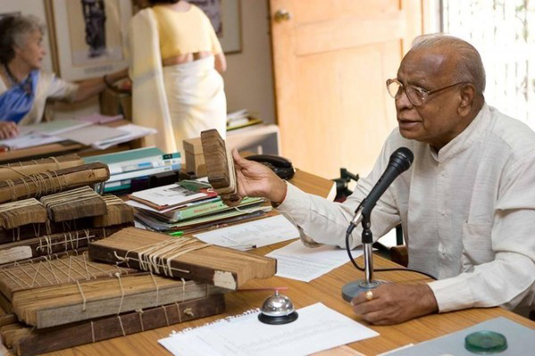 Dr V. Ganapati Sthapati analisando documentos antigos